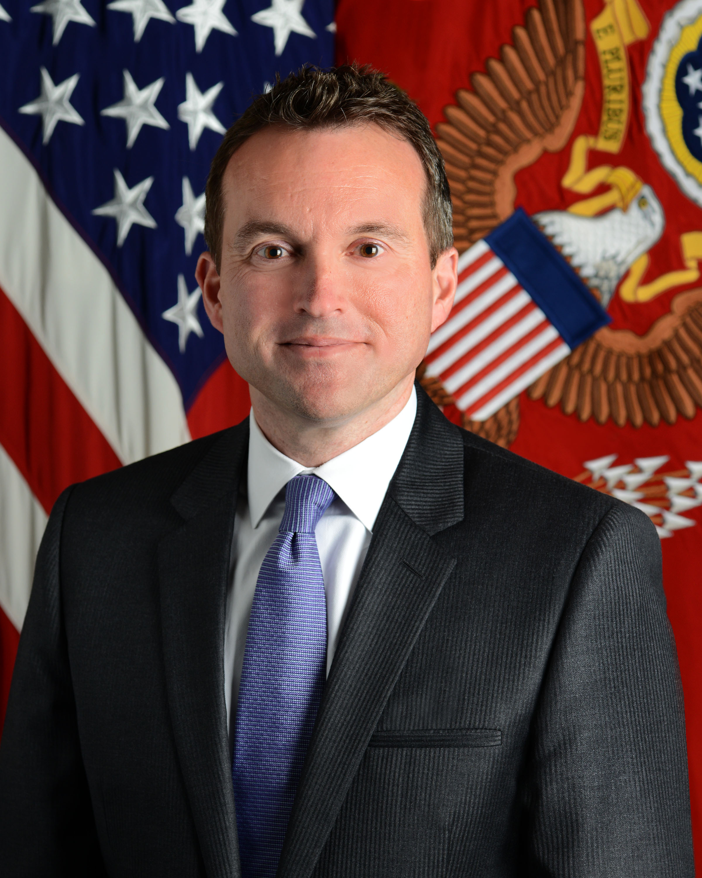 Eric K. Fanning, the 22nd Secretary of the Army, poses for his official portrait in the Army portrait studio at the Pentagon in Arlington, VA, Nov. 2 2015. (U.S. Army photo by Monica King/Released)